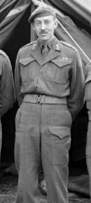 Major General D C Spry, 3rd Infantry Division (Canada) (Cropped from group picture)